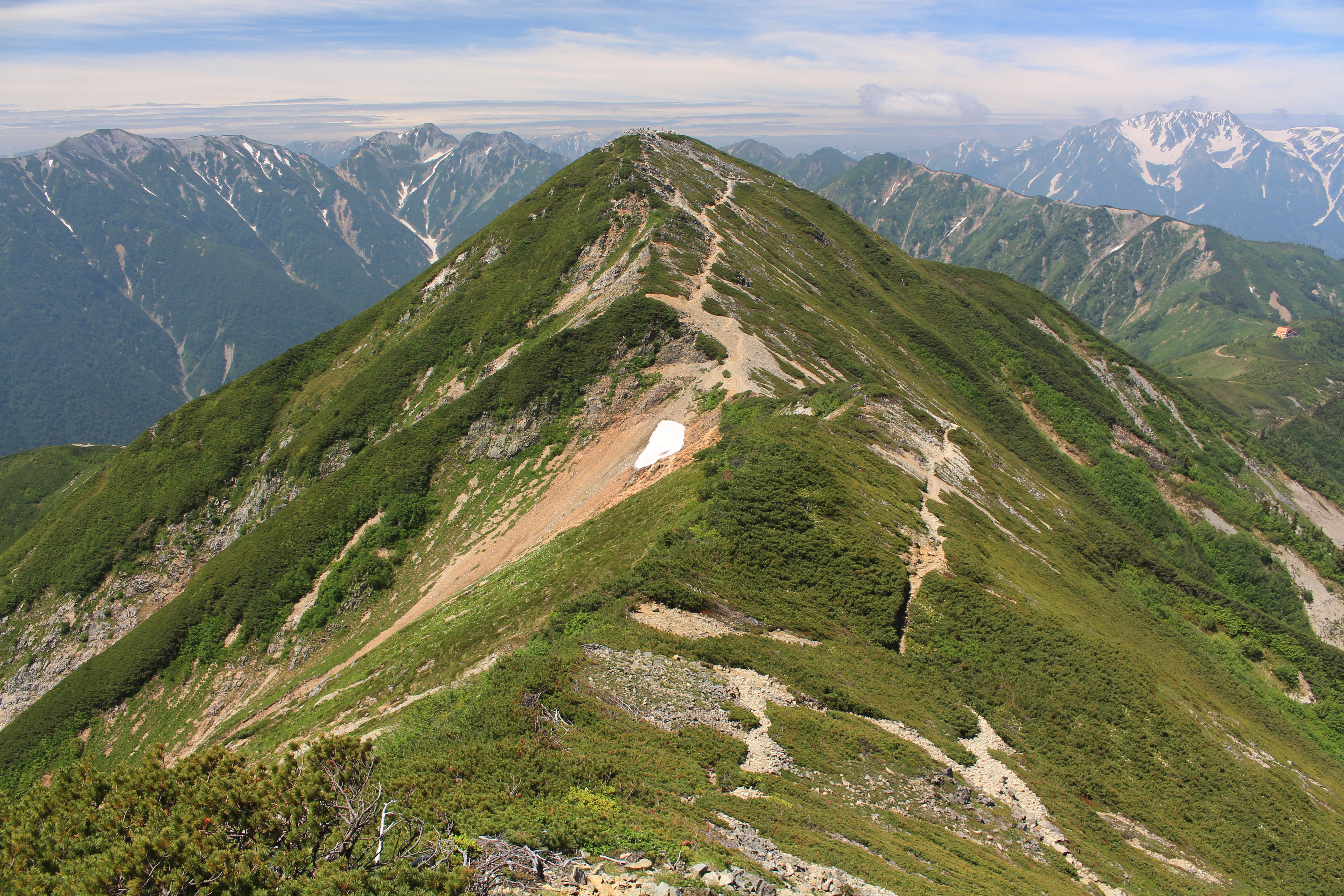 Mount Jii south peak in Hida Mountains, Japan.